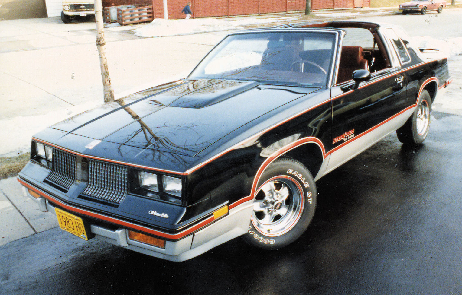 1983 Hurst/Oldsmobile T-top. Taken March 1983.